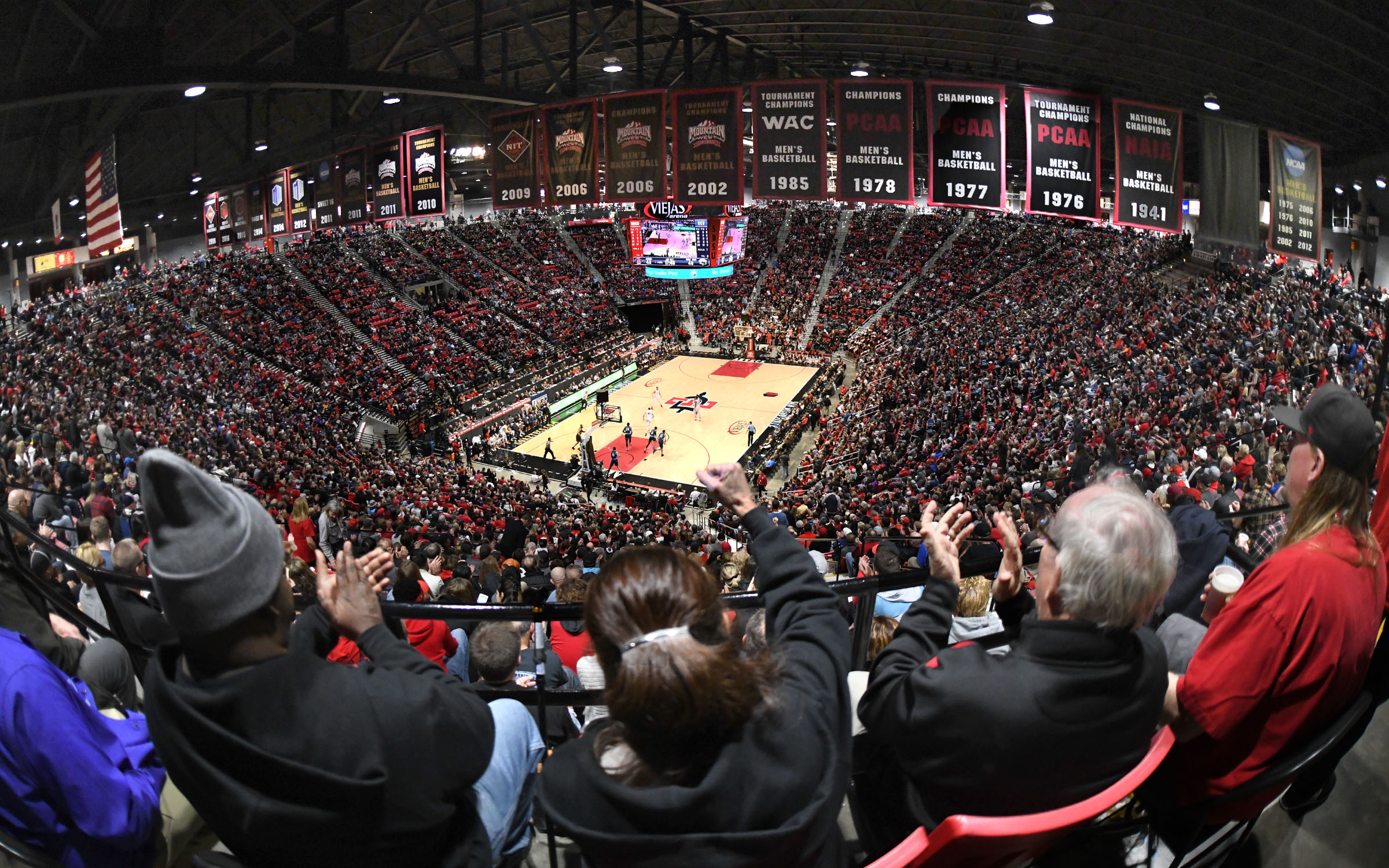 Viejas Arena Sell Out